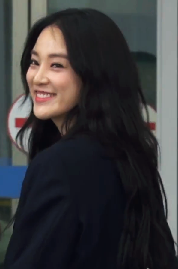 Lee Joo-yeon at Incheon International Airport on April 3, 2018